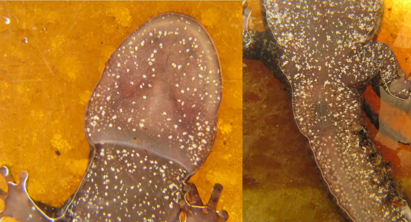 Underside photograph of long-toed salamander (Ambystoma macrodactylum) collected near Prince George British Columbia.